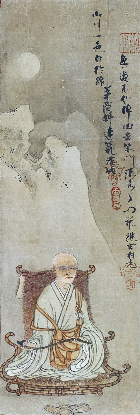 Portrait of Sesson Shukei ,Japanese Important Cultural Properties